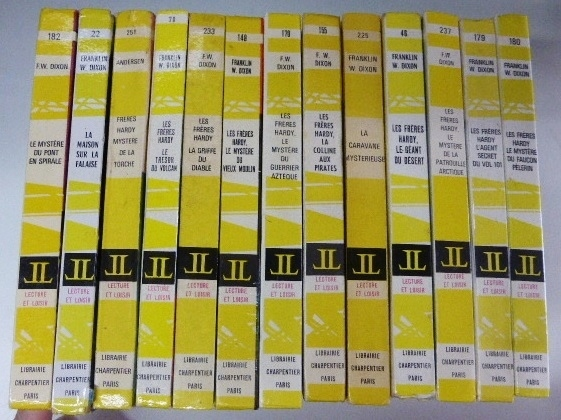 French children books - Lecture et Loisir